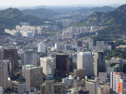 Skyline of Seoul